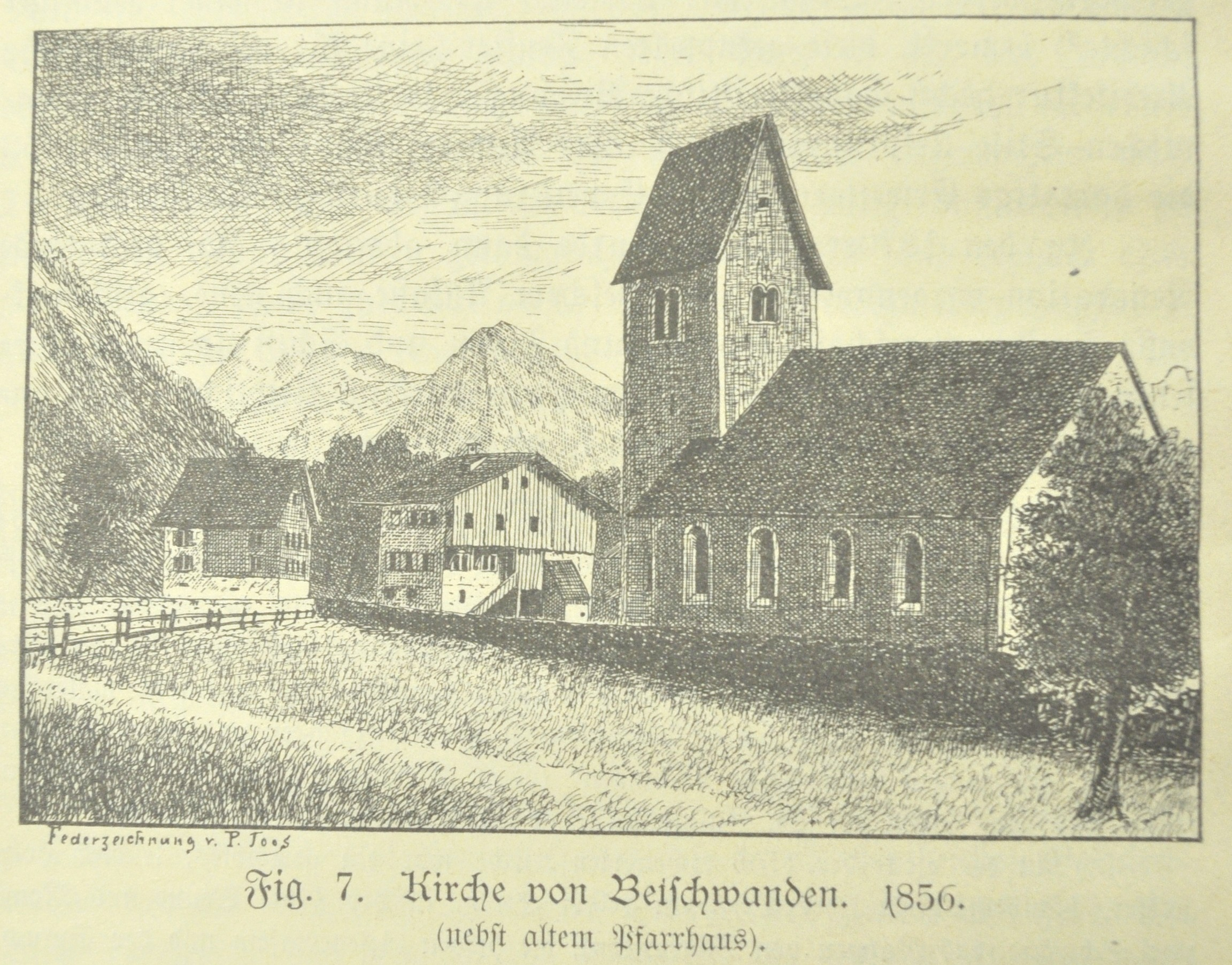 Pen and ink drawing of the Church in Betschwanden 1856, showing church and adjoining manse